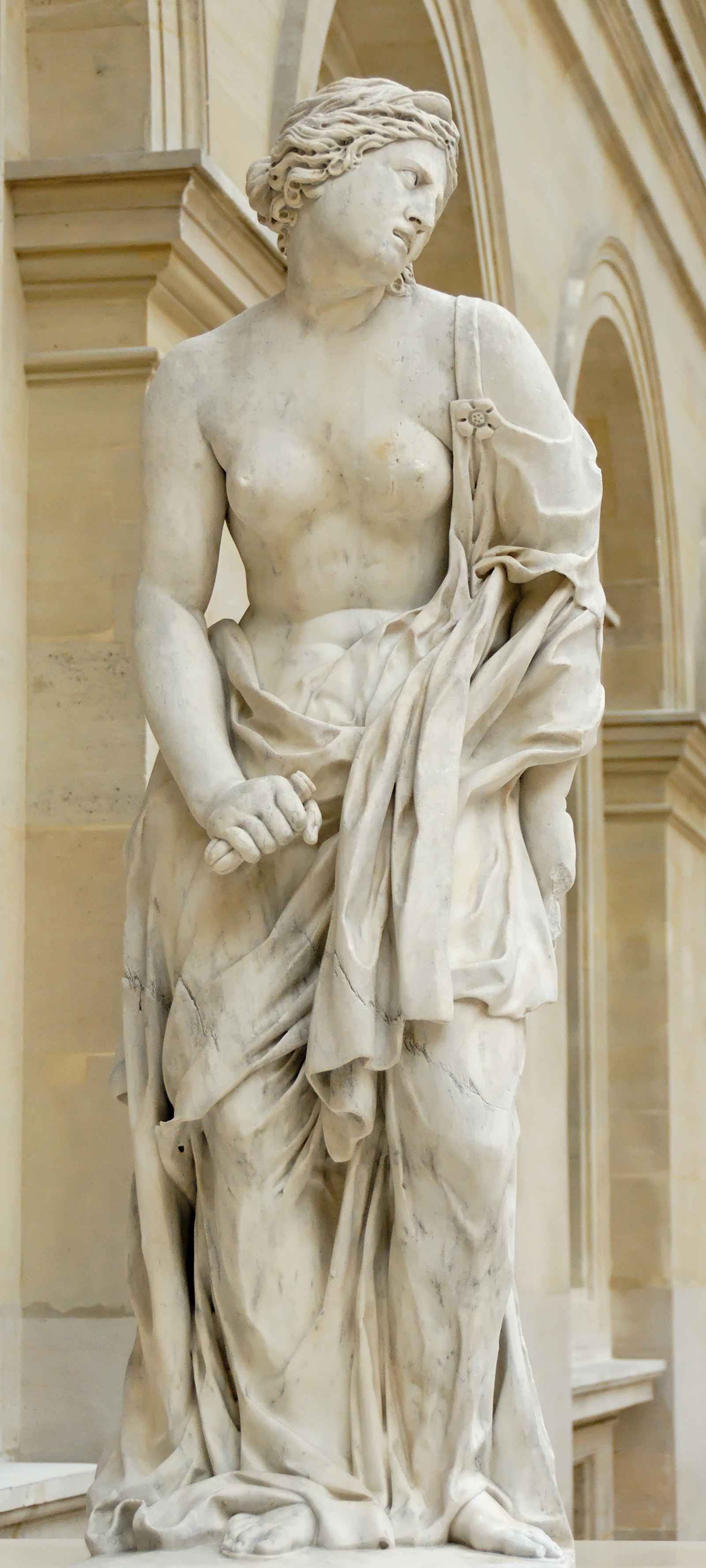 Dido. Marble, attested in 1707 in the park of Marly.